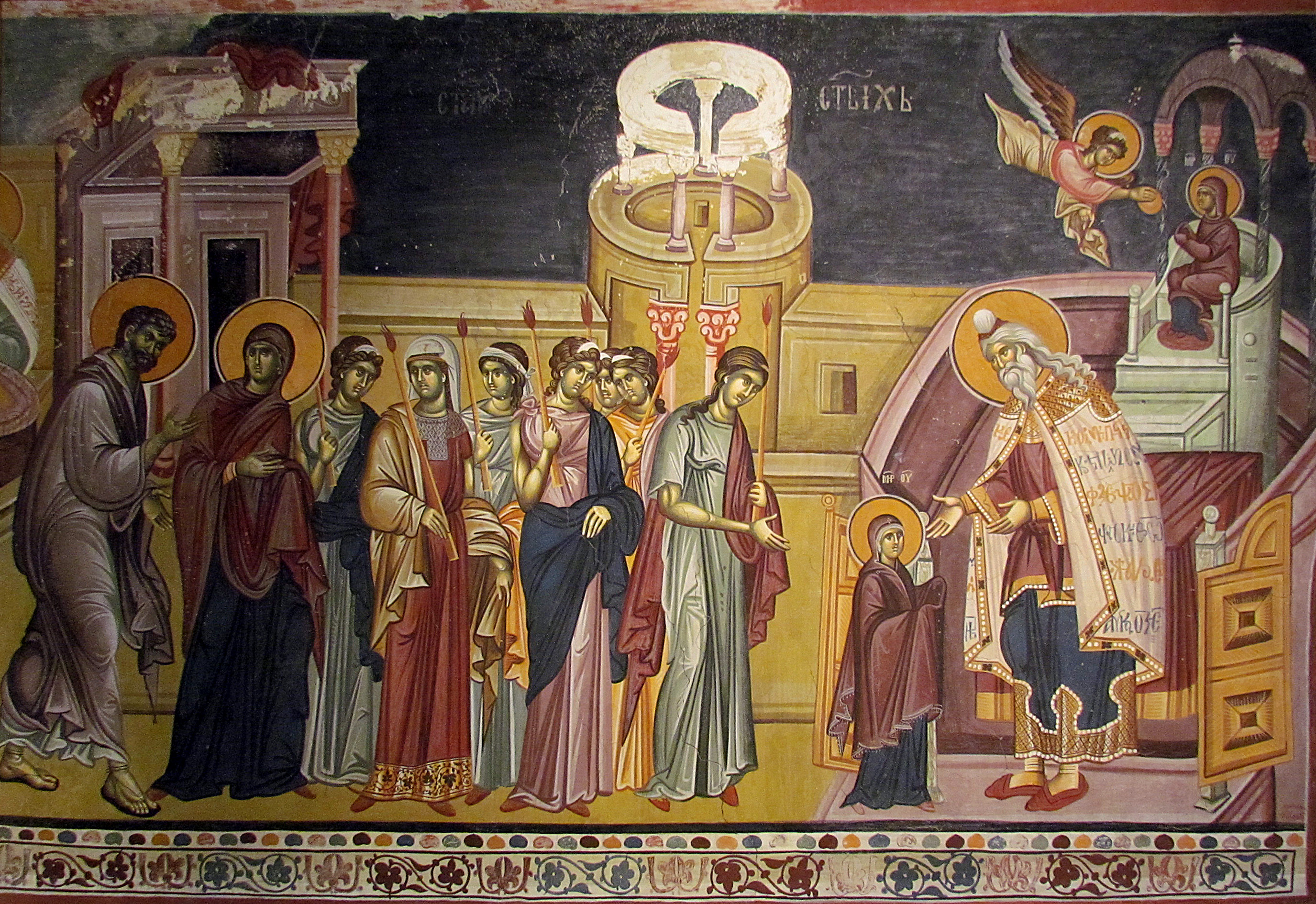 The Presentation of the Mother of God in the Temple, Church of St. Joachim and Anne, King's Church in Studenica, 1313-14